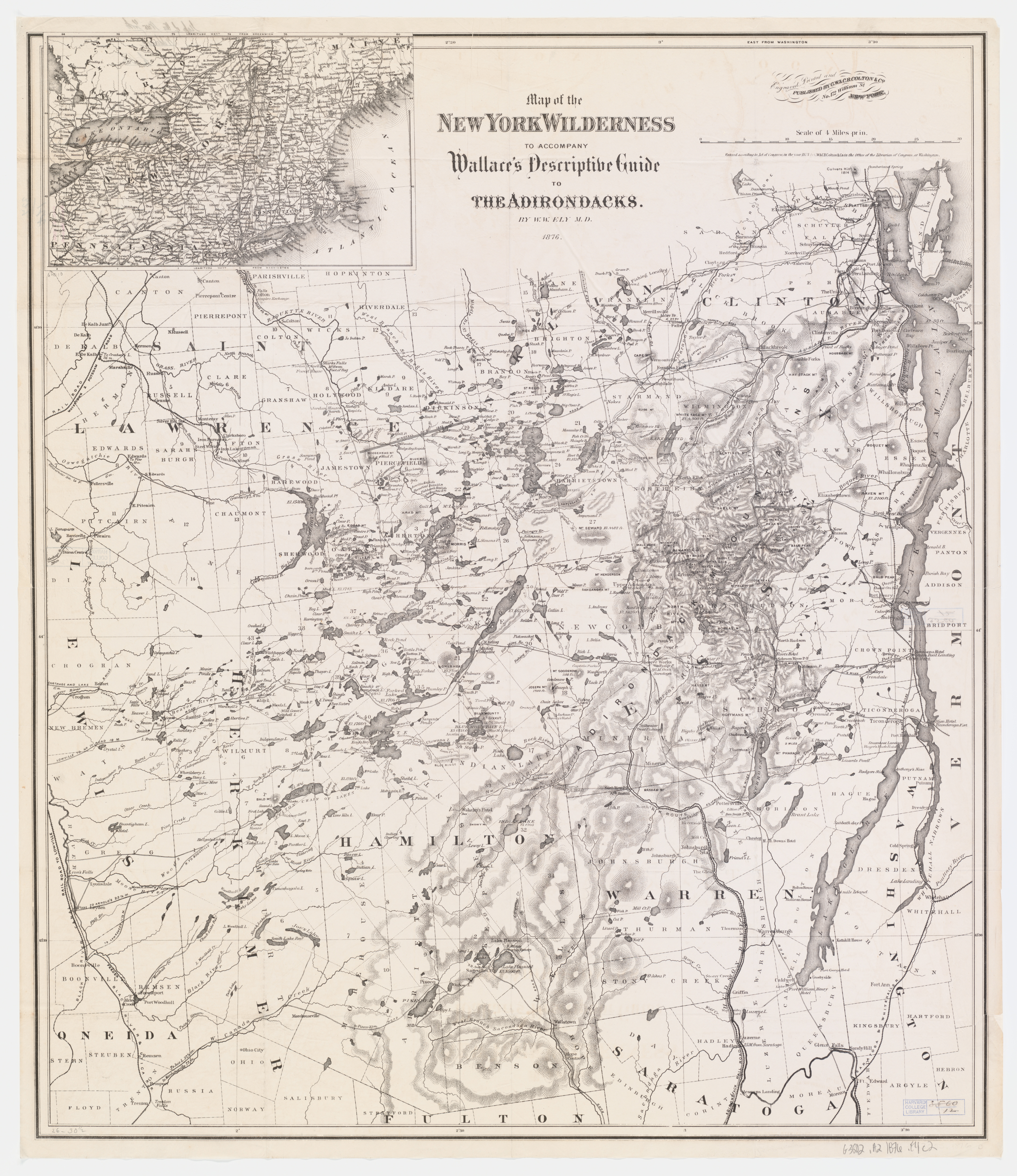 Map from Descriptive guide to the Adirondacks, and handbook of travel to Saratoga Springs, Schroon Lake, lakes Luzerne, George and Champlain, the Ausable Chasm, the Thousand Islands, Massena Springs and Trenton Falls by E. R. Wallace (1875). Scanned and archived at where it was marked as Public Domain. Very interesting map as it shows many of the older names for peaks and places.